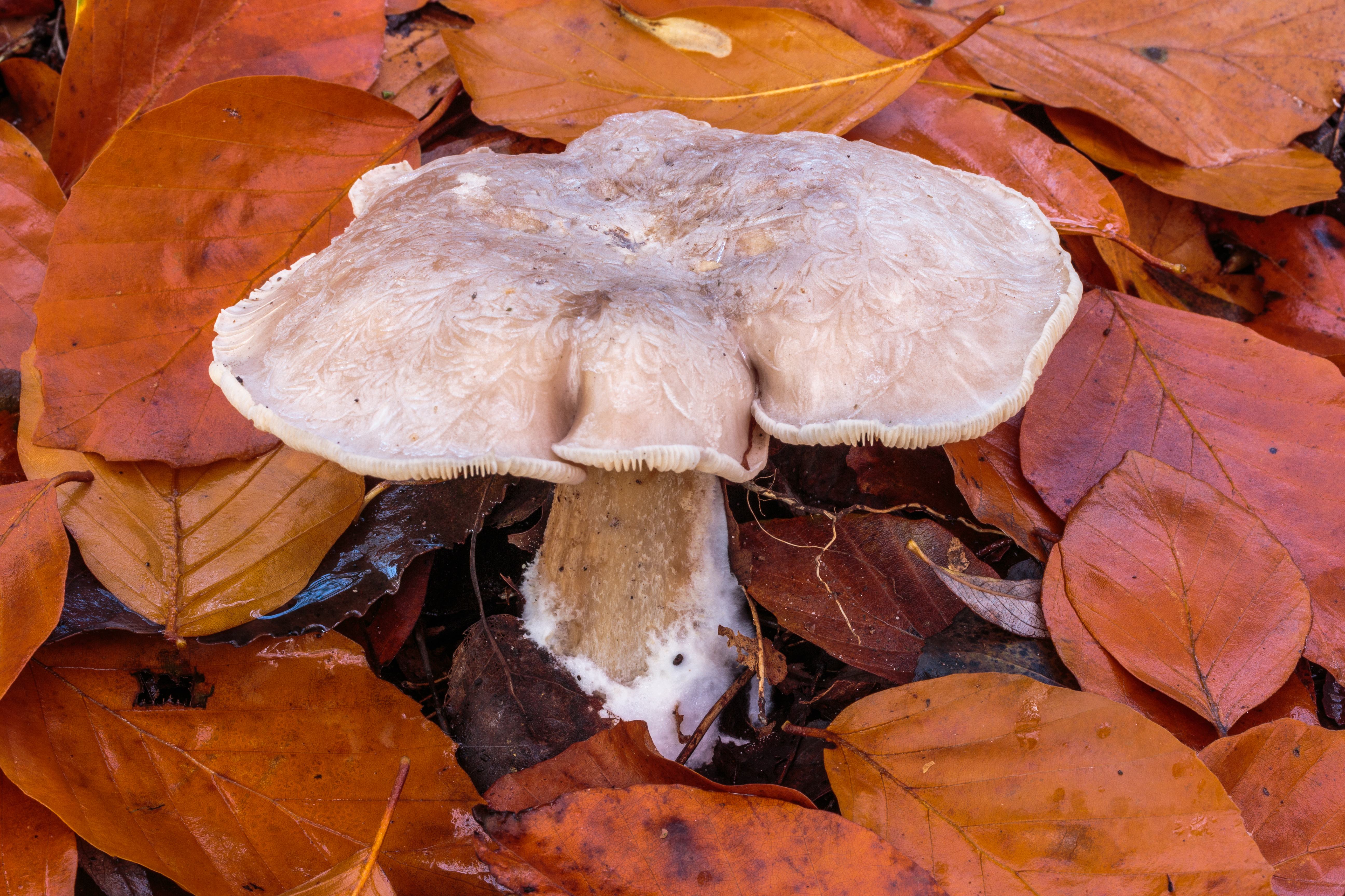 (Clitocybe nebularis) between fallen beech leaves (wetted by morning mist).